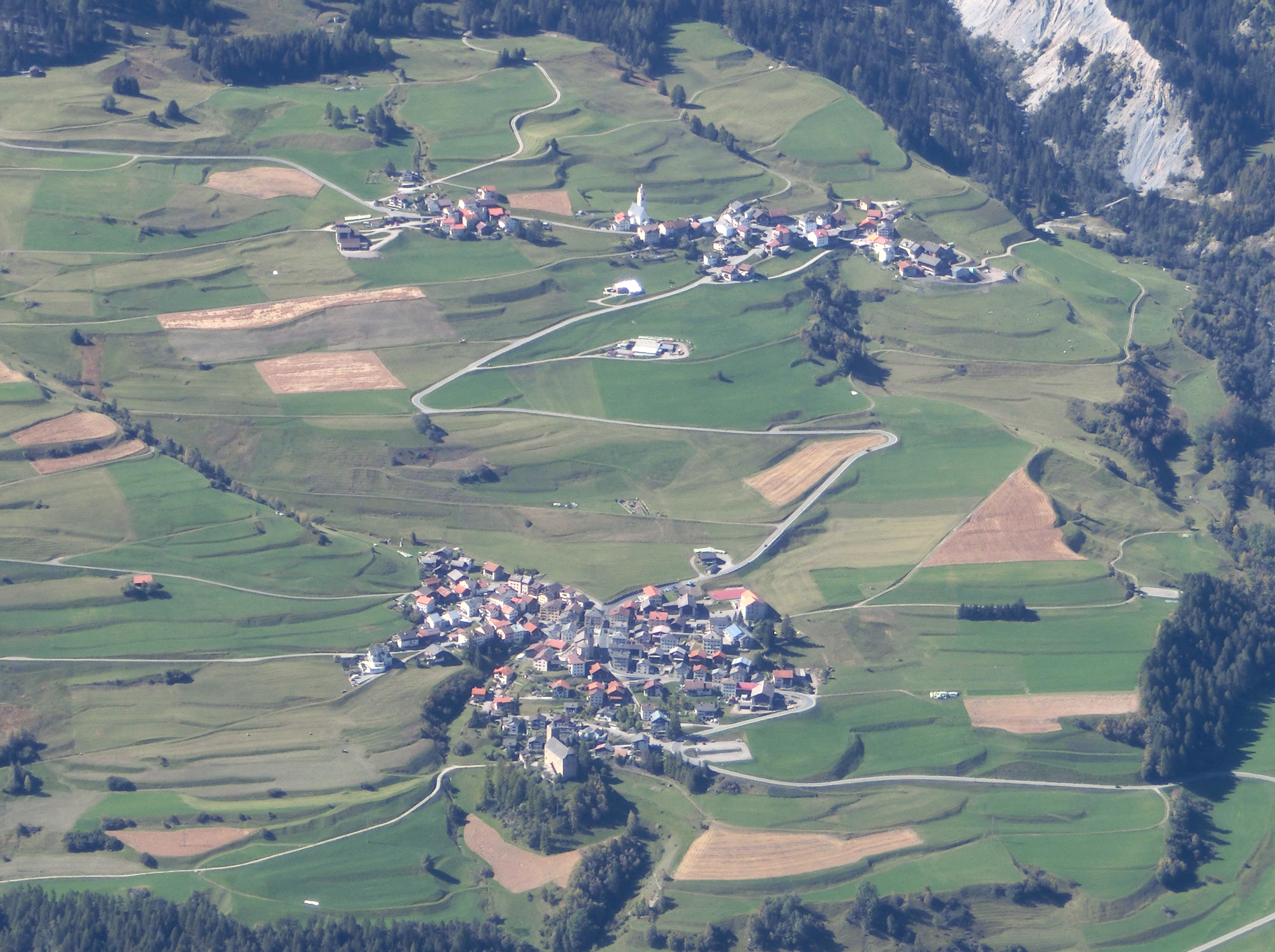 Riom (bottom) and Parsonz (top), picture taken from Piz Mitgel (Tiefencastel / Filisur / Savognin, Grison, Switzerland)